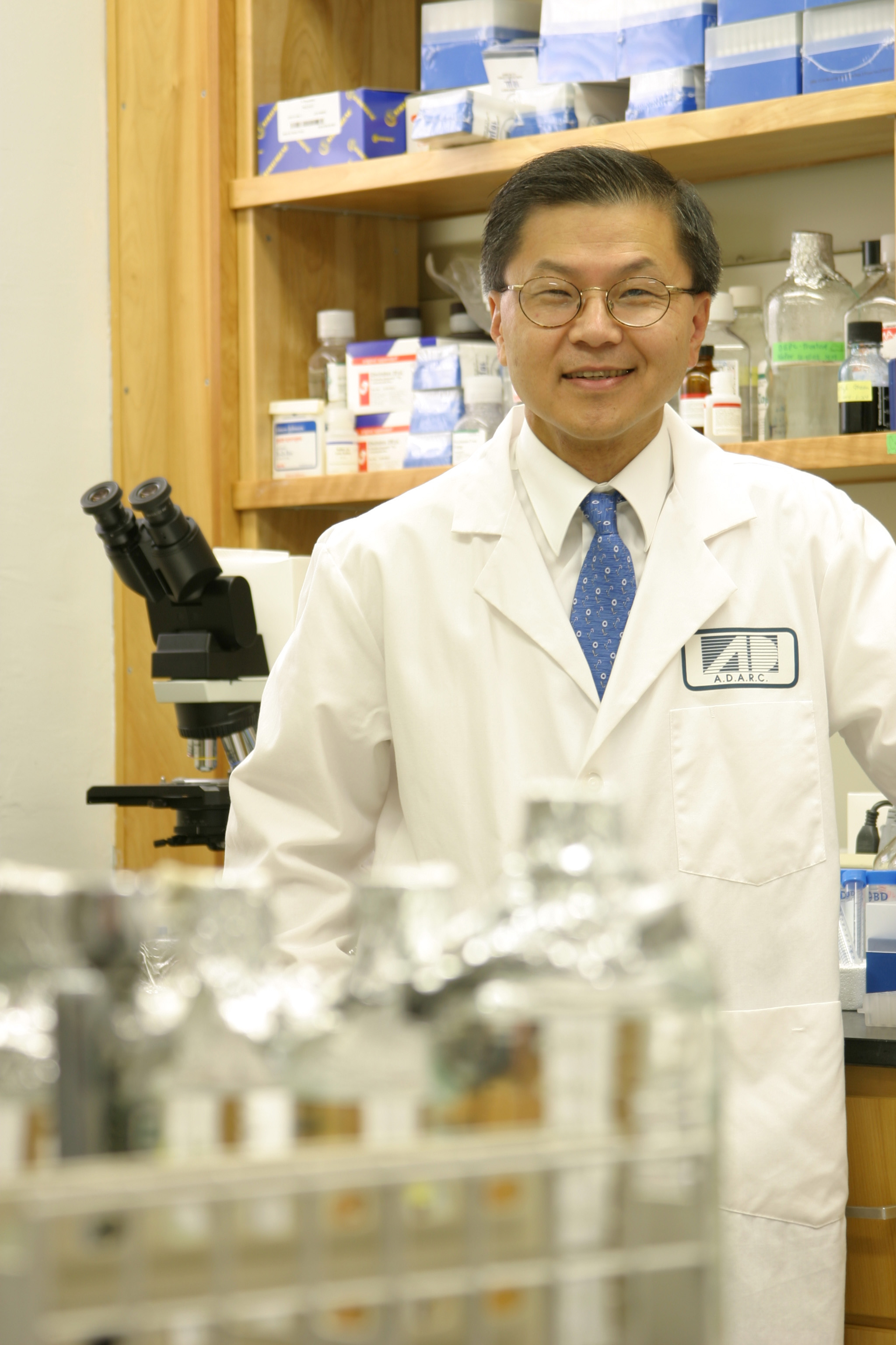 David Ho in his laboratory within the Aaron Diamond AIDS Research Center, New York, NY.